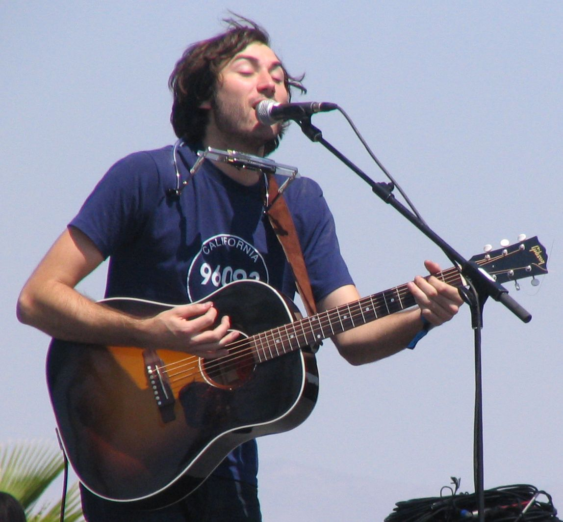 Matt Costa playing live at the 2006 Coachella Valley Music and Arts Festival